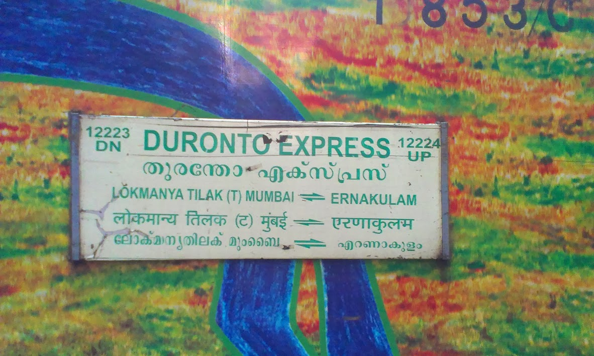 Sign board of the Lokmanya Tilak - Ernakulam Duronto Express waiting at Panvel station